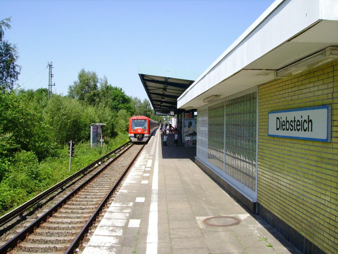 Diebsteich railway station, track 2, Hamburg, Germany (incoming S3 from Pinneberg toward Stade)